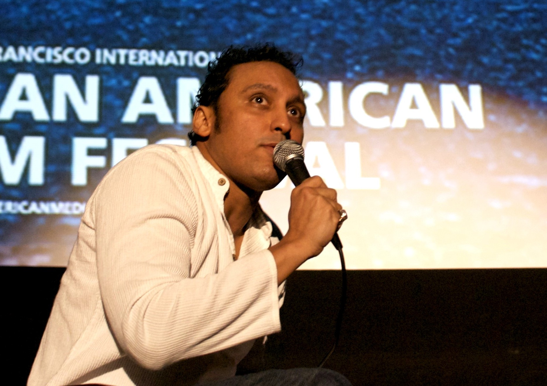 An afternoon with actor, writer and The Daily Show "Senior Foreign-Looking Correspondent" Aasif Mandvi @ Clay Theatre, San Francisco. (San Francisco International Asian American Film Festival 2010)